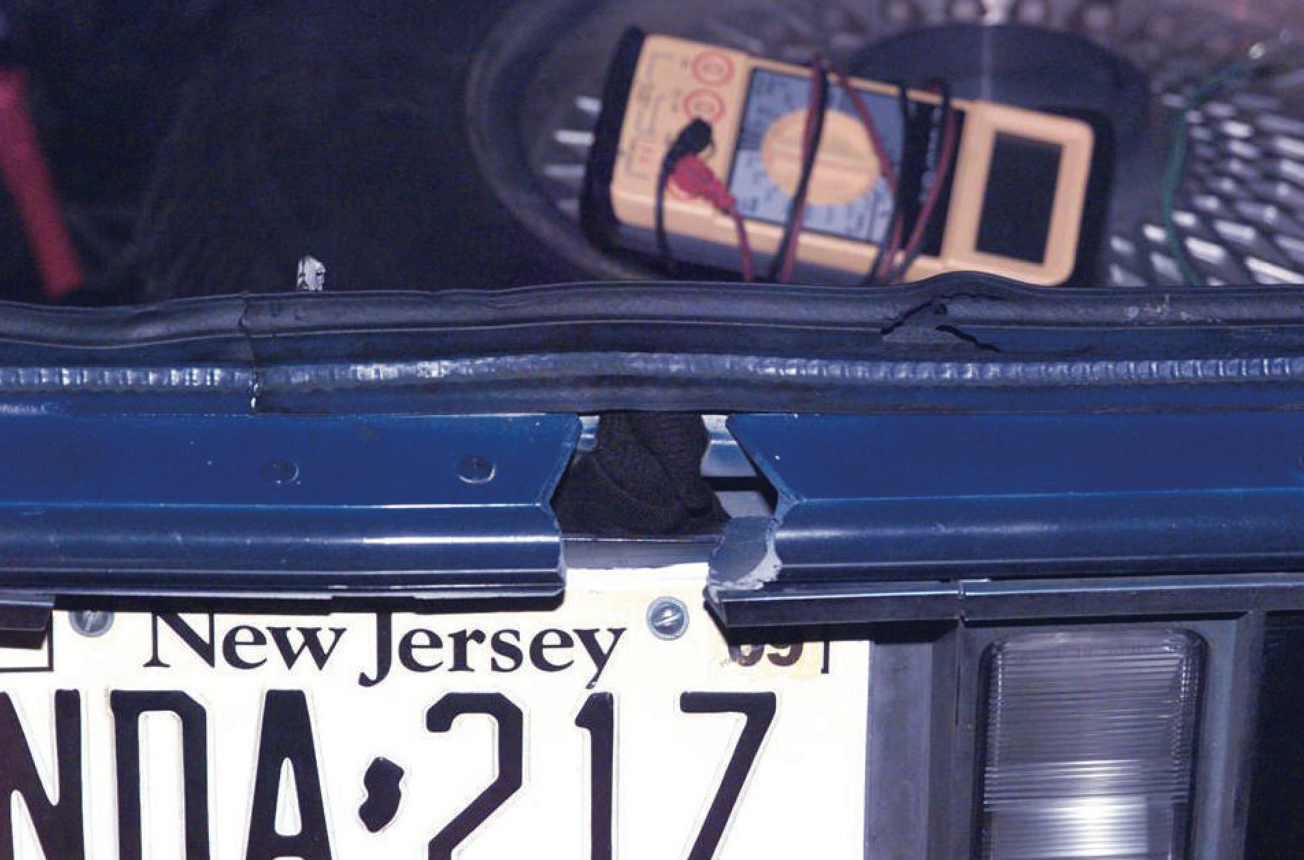 The trunk of the 1990 Chevrolet Caprice driven by the D.C. snipers in October 2002. The license plate number is NDA-21Z.